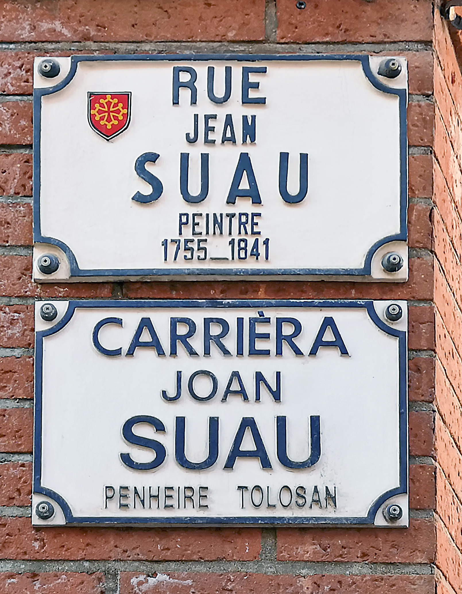 Rue Jean-Suau, in Toulouse - Street name sign. They have the particularity of being: in French and Occitan.